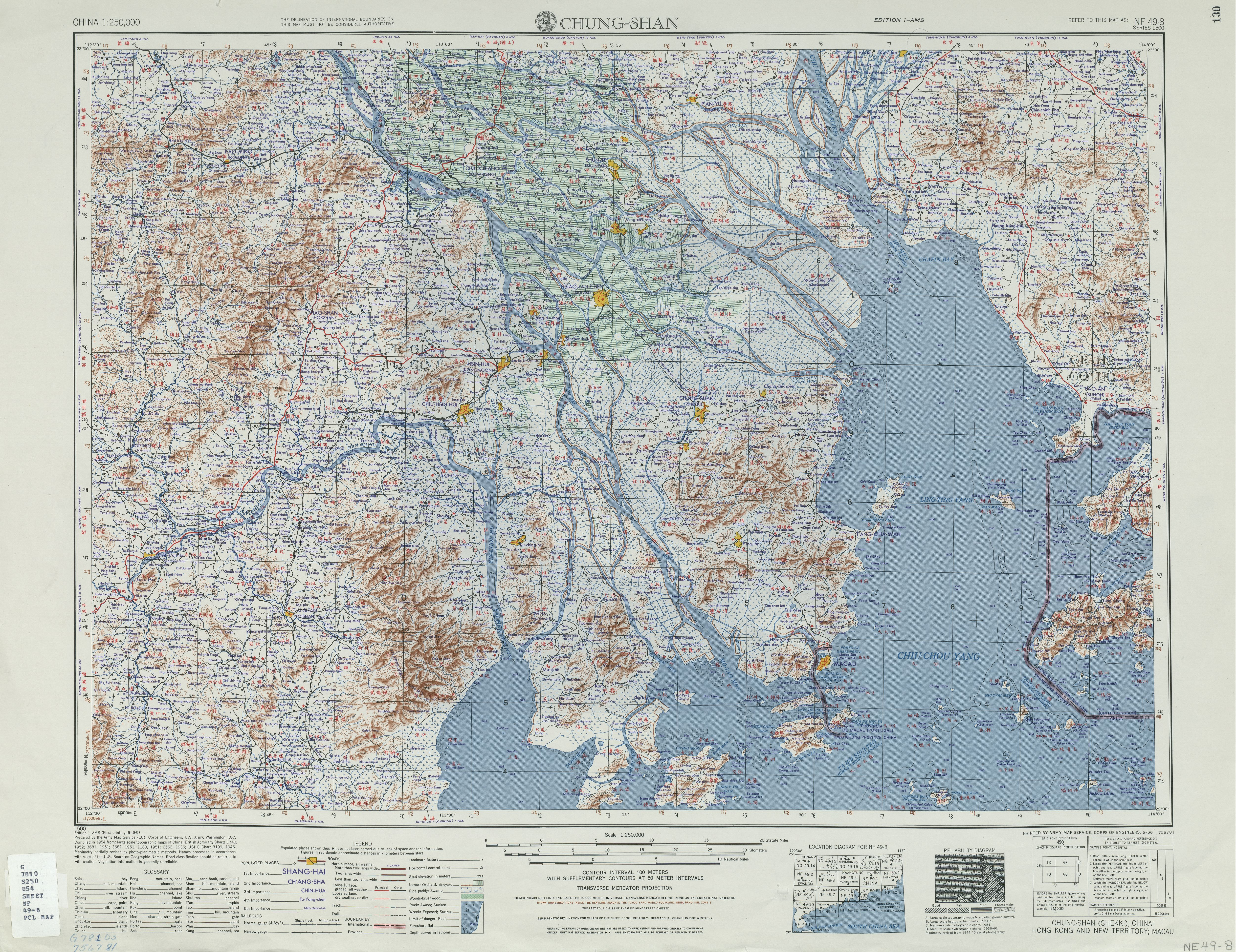 Map of the Zhongshan (Chung-shan, Shekki) area